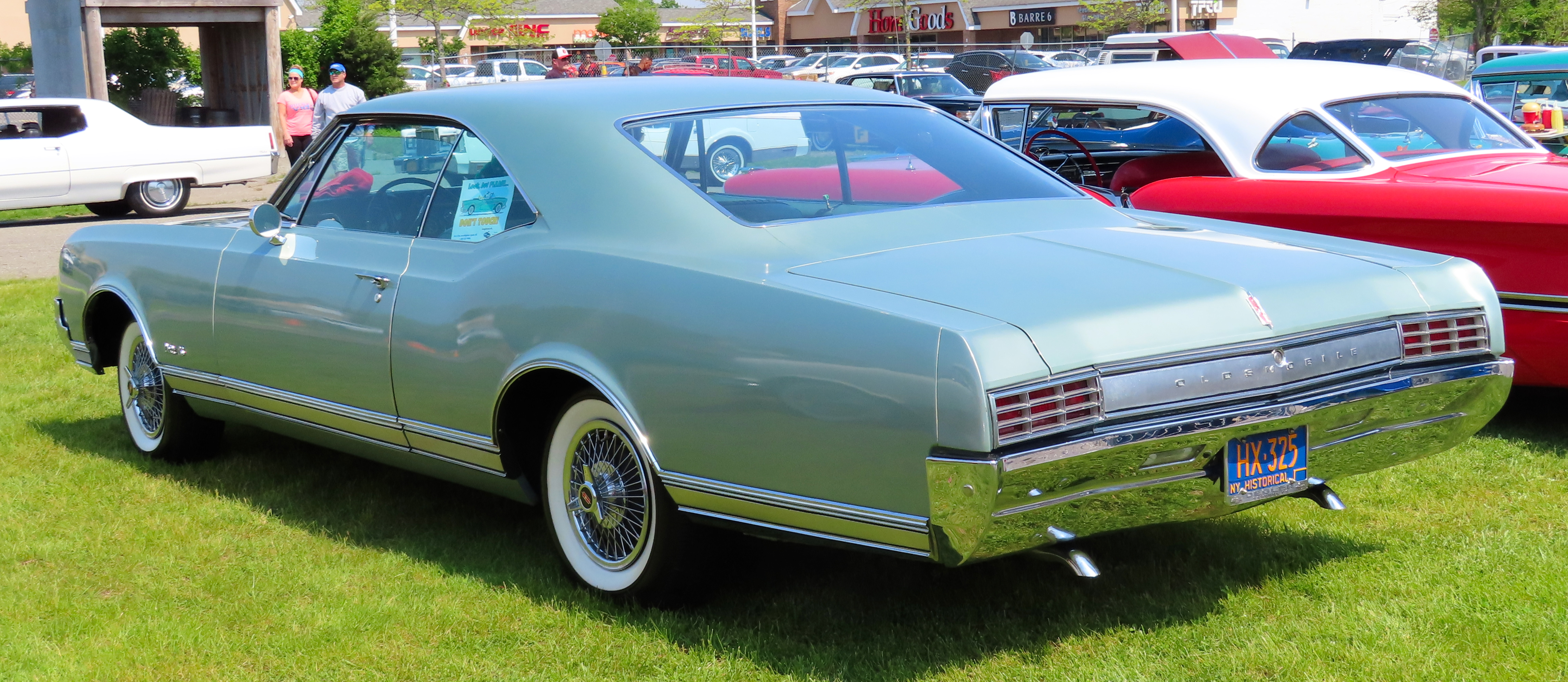 A 1966 Oldsmobile Delta 88 photographed during at a classic car show, in Merrick, New York, USA